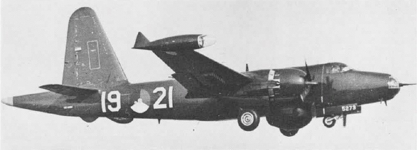 A Lockheed P2V-5 (P-2E) Neptune of the Koninklijke Marine (Royal Netherlands Navy). The aircraft was built for the Netherlands but had the U.S. Navy Bureau Number 134671 assigned. However it has the last four digits of the Lockheed construction number painted on the nose wheel doors (426-5273). It was delivered to the Koninklijke Marine on 8 December 1953 as "19-21", later the hull number was changed to "086". It was returned on 9 March 1962 and passed on to the to Portuguese Air Force as "FAP 4701". Following negotiations between the governments of the Netherlands and Portugal, 12 Dutch P2V-5s were transferred to the Portuguese Air Force (serials 4701-4712). The P2V-5s replaced Lockheed PV-2 Harpoons of Esquadra de Reconhecirnento Maritime 61 (Maritime Reconnaissance Squadron) at Base Aerea No. 6 at Montijo, located near Lisbon. Contrary to the NATO charter, Portuguese P-2Es were used in combat operations during Portugal's colonial wars in Africa. In the late 1960s two P-2Es were assigned to BA 9 at Luanda (Angola), and carried out bombing missions and coastal patrols. Others operated from the island of Sao Tome during the Biafra war. At Portuguese Guinea-Bissau, BA 12 operated a pair of P-2Es in the bomber role. By 1977, only four P-2Es remained operational at BA 6, the remainder having been scrapped or stripped for parts. 4707 and 4711 were the last Neptunes that were finally withdrawn from service in 1978.